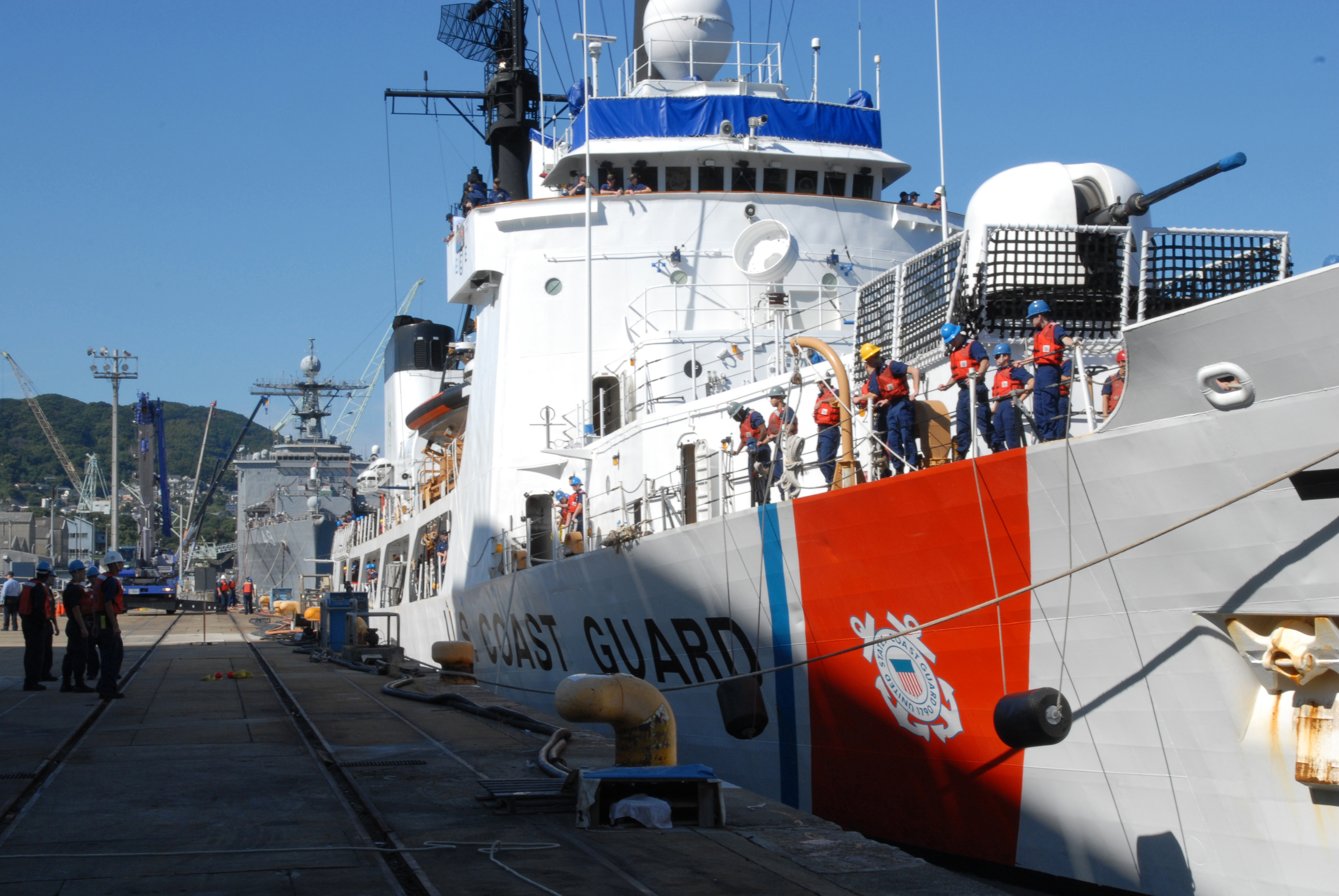 U.S. Navy line handlers from the amphibious assault ship USS Essex (LHD 2) help moor the high-endurance cutter USCGC Midgett (WHEC 726) at Fleet Activities Sasebo, Japan, Oct. 3, 2007. Midgett is on extended law enforcement and fisheries protection patrol from the U.S. Coast Guards' 13th District and is home ported in Seattle, Wash. (U.S. Navy photo by Mass Communication Specialist 2nd Class David Didier) (Released)